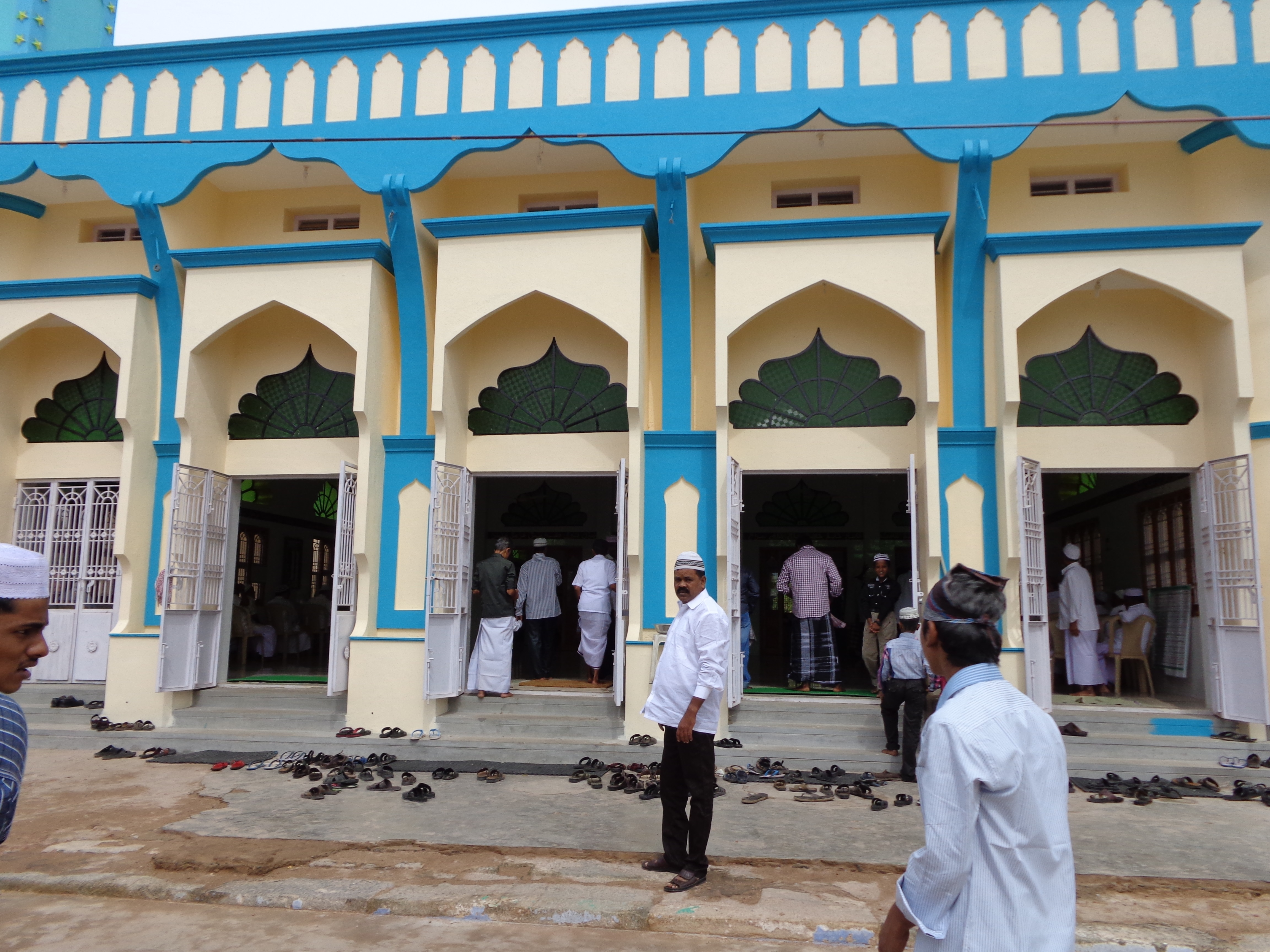 Aravakurichi - Jumma Masjid (Big Mosque)